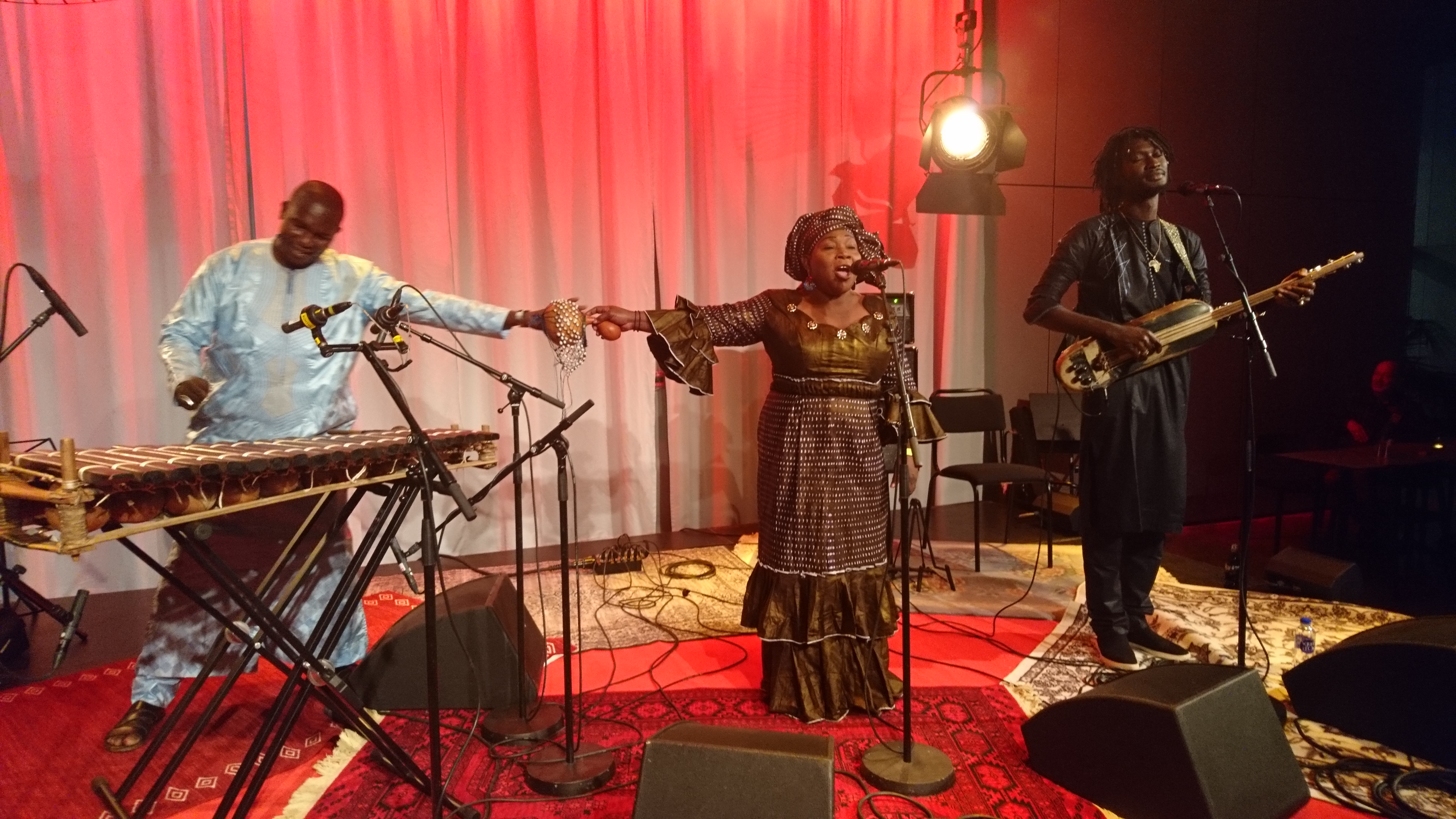 Performance of Trio Da Kali in the city of Uppsala, Sweden